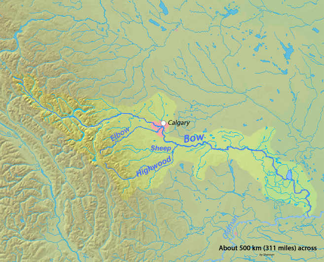 Map of the Bow River, a tributary of the South Saskatchewan River, in western Alberta, Canada